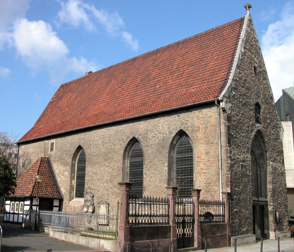 Brunswick, Germany: St. Bartholomew’s as seen from southeast.